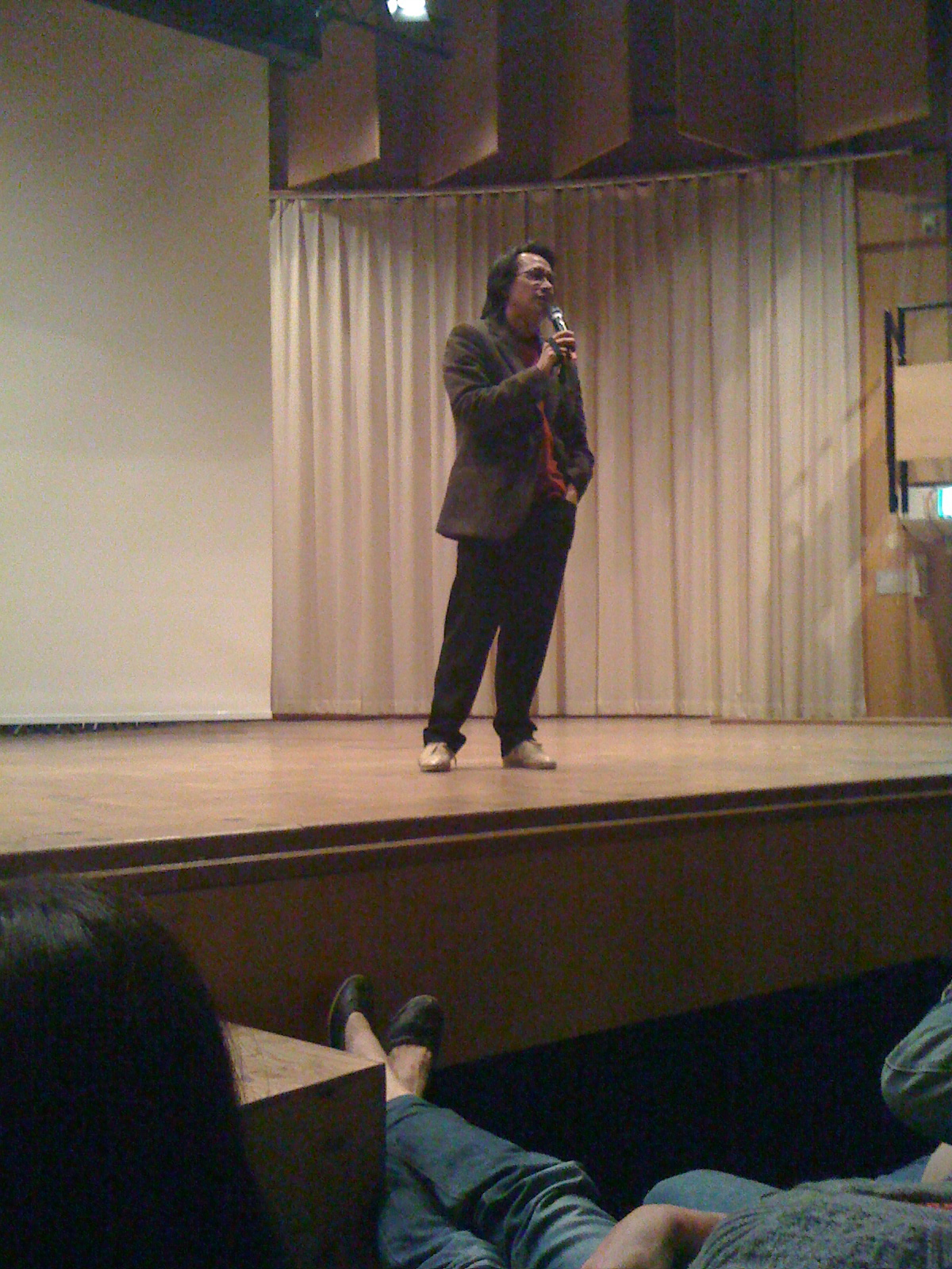 Raybon Kan holds an Q&A at Fantastisk Film Festival ( in Lund, Sweden after the screening of Diagnosis: Death.